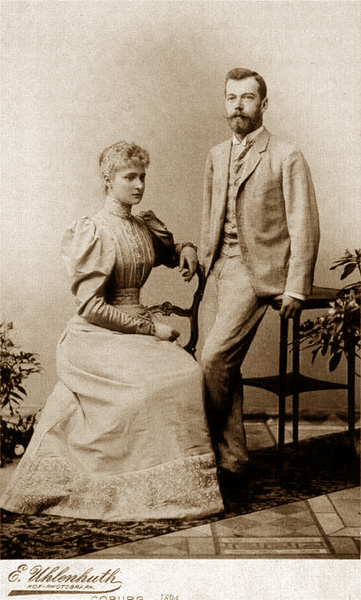 Tsarevich Nicholas Alexandrovich and Princess Alice of Hesse after the engagement.